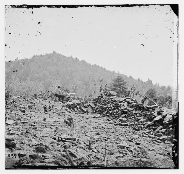 Big Round Top — from the entrenchments on Little Round Top, during the 1863 Battle of Gettysburg. 1863 photograph of the granitic hills by Timothy H. O'Sullivan.